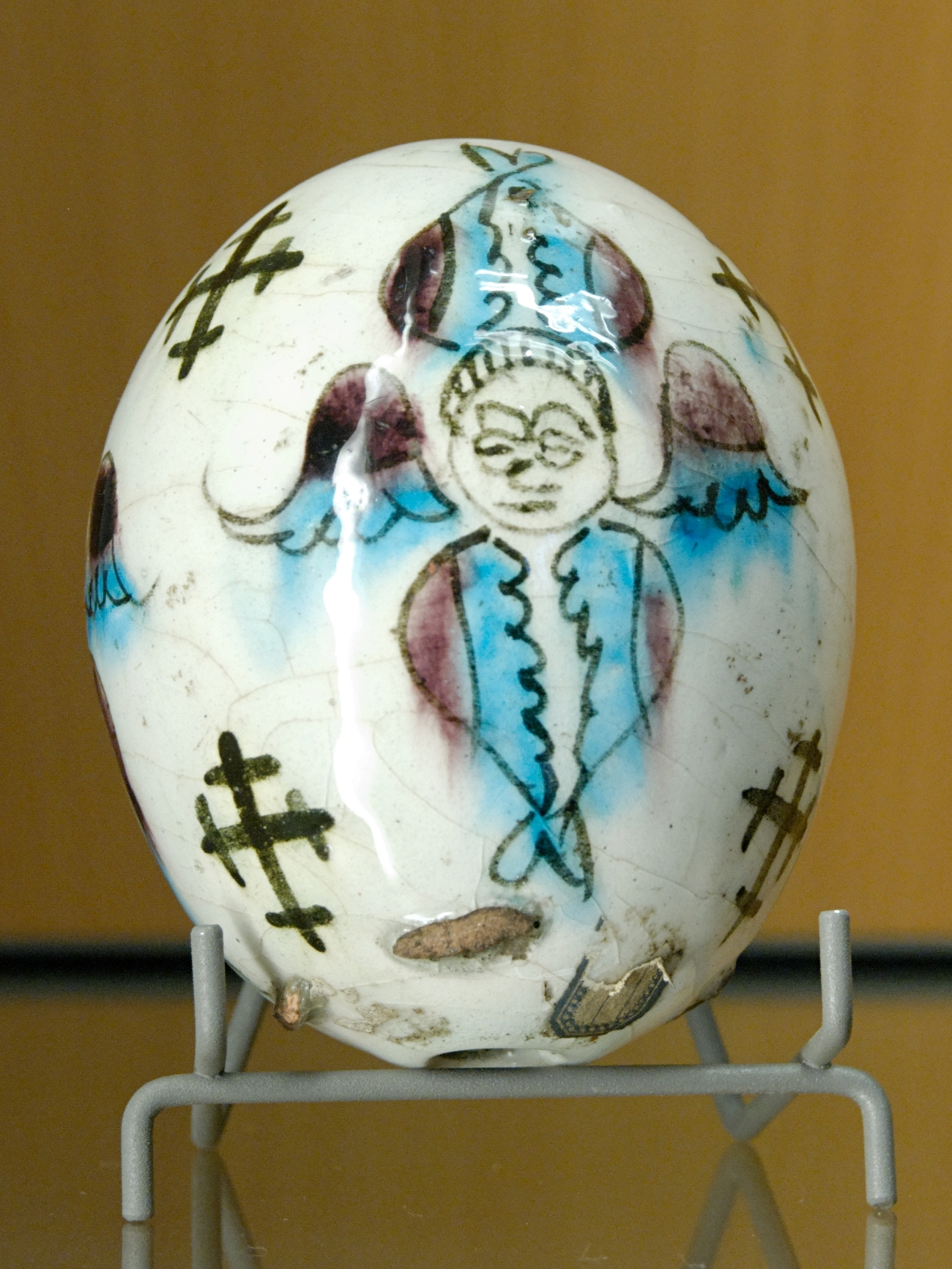 Kütahya “egg” (ornament hung on oil lamp chains) with seraphim. Earthenware with painted decoration on slip, under lead glaze, İznik ceramic.